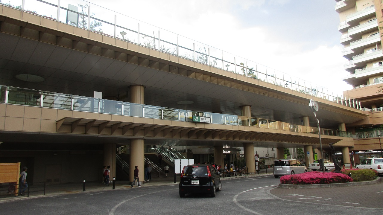 JR総武本線 市川駅